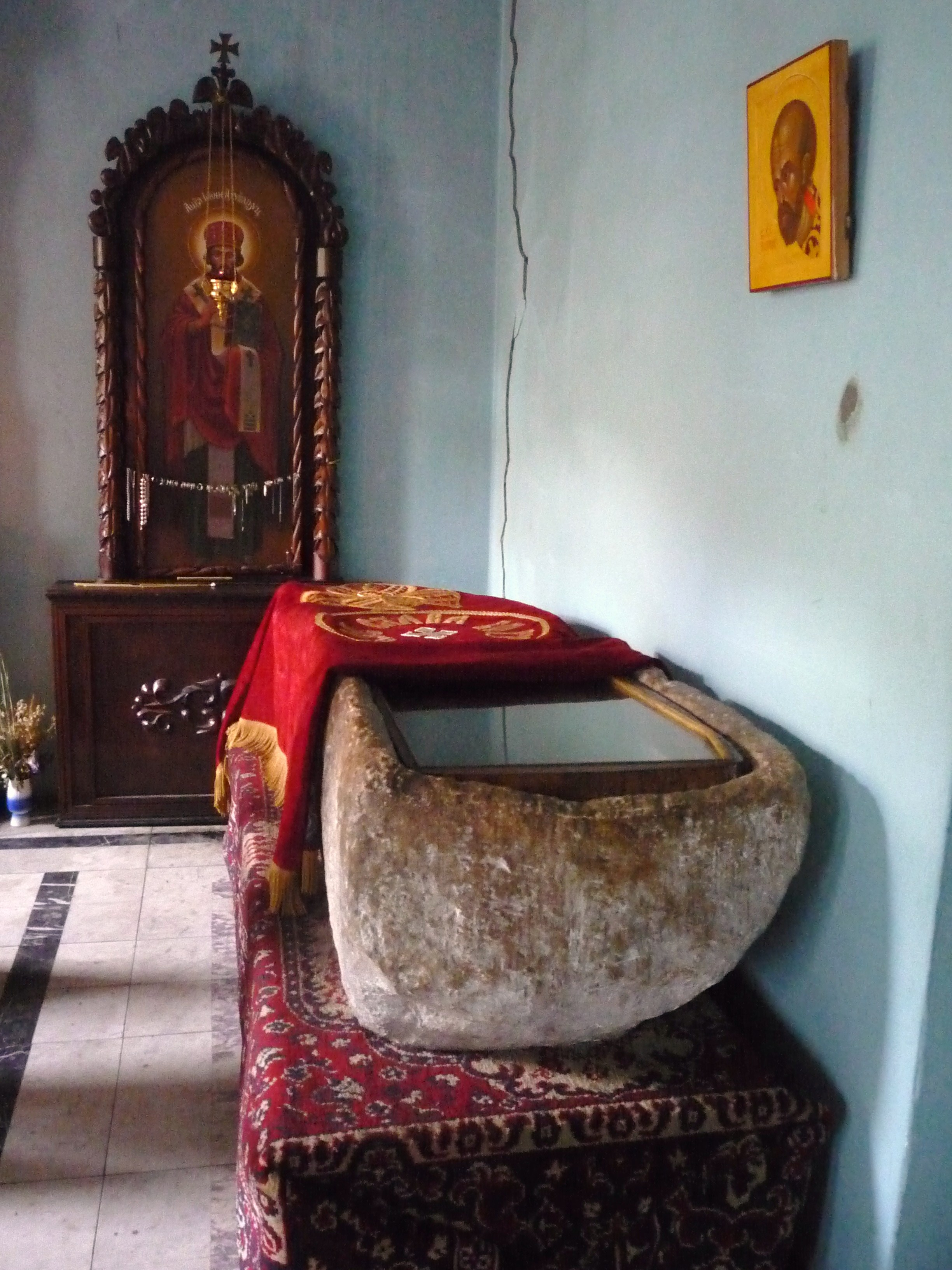 The Russian text can be translated as: Burial place of St. John Chrysostom in Comana. --Rsteen (talk) 15:42, 28 July 2014 (UTC)